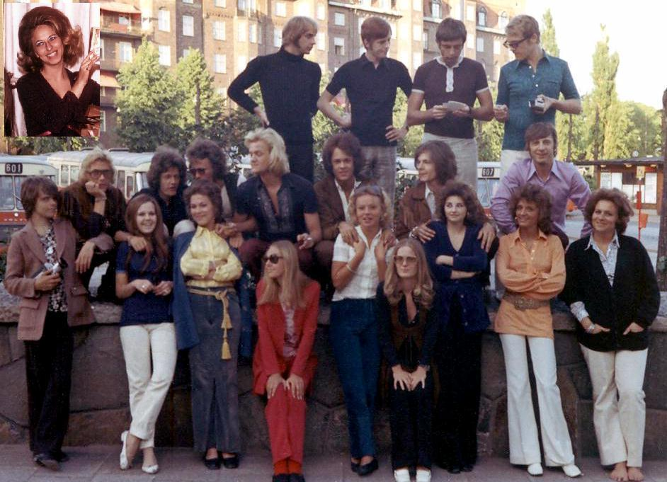 Clanhus AB employees of discothèques Mia & City Club assemble to pick up club hostess Mia Adolphson (insert) for a summer party in the country, l-r: Olle Johansson, Lars Mörk, Lena Ahlquist, Conny Molin, Barbro Heinz (Lindskog), Terje Cambrand, Åke "Stampe" Wedell, Lena Thorbard, Greger Planstedt, Lars Jacob, Astrid Ohlsén, Christer Andersson, Sonja Engberg, Dan Ahlquist, Peter Dunk (Gästerfält), Loretta Bezzini, Jan Anderson, Elisabeth Hultner (Lennevald), Bertil Säfbom & Eva "Pixie" Webjörn, as released by image creator Lars Jacob ProdPlace: Jarlaplan, Stockholm, Sweden